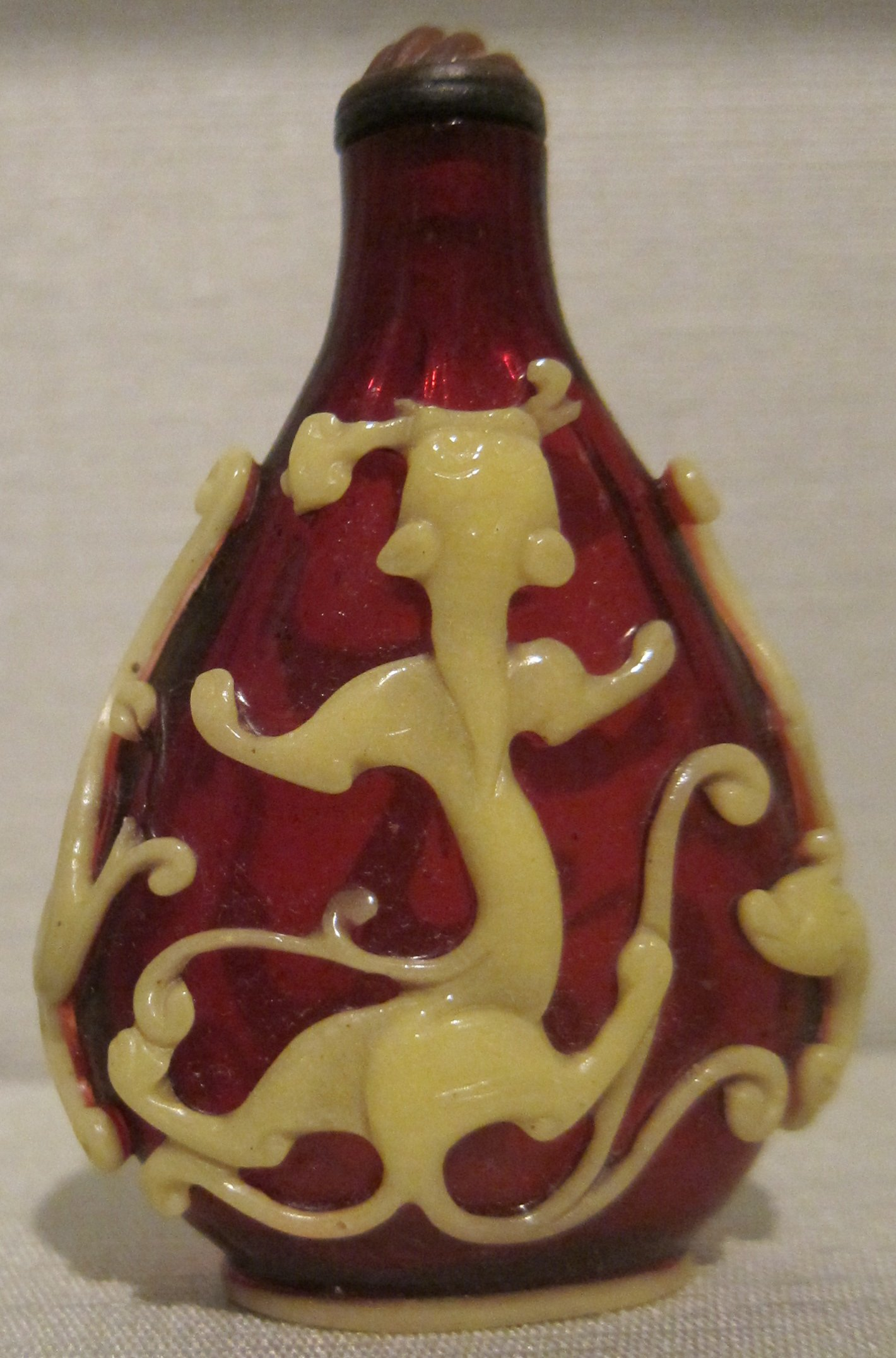 Chinese snuff bottle, Qing dynasty c. 1780-1850, glass bottle with amber stopper, Honolulu Museum of Art